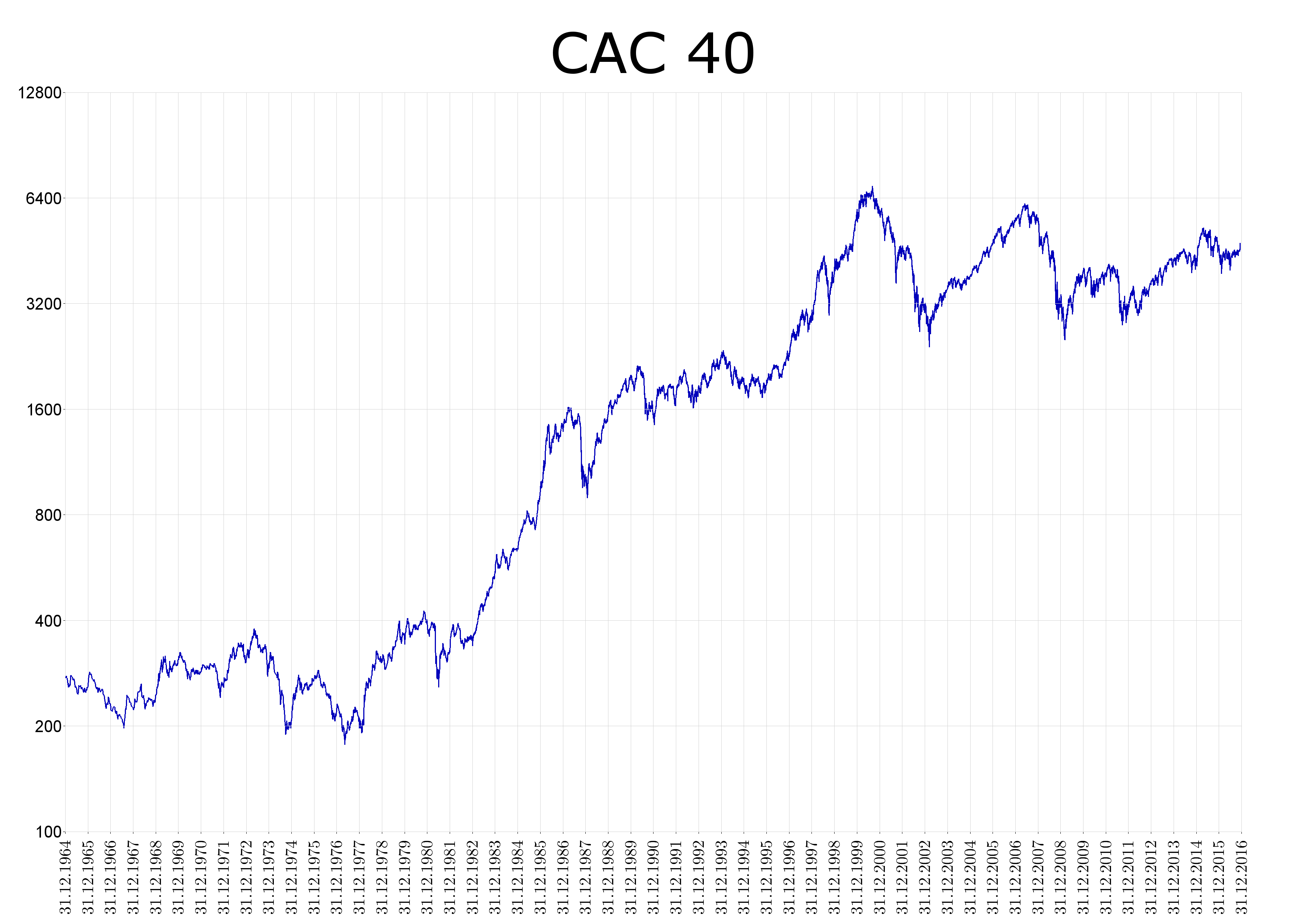 CAC 40 from December 1964 to December 2016 (daily closings).